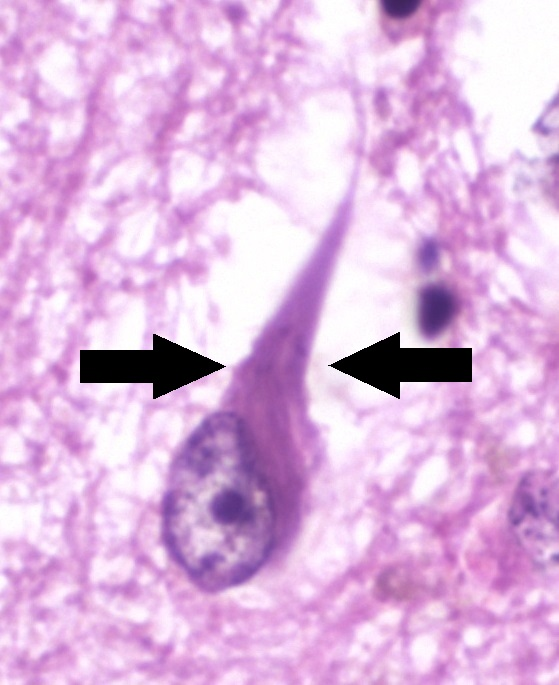 Histopathology of neurofibrillary tangles in the hippocampus in Alzheimer's disease. H&E stain.